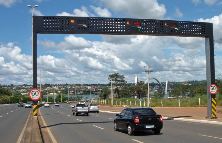 Automatic speed surveillance and enforcement equipment in the approach to JK bridge, Brasília, DF.